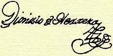 Signature of Chief of State Dionisio de Herrera